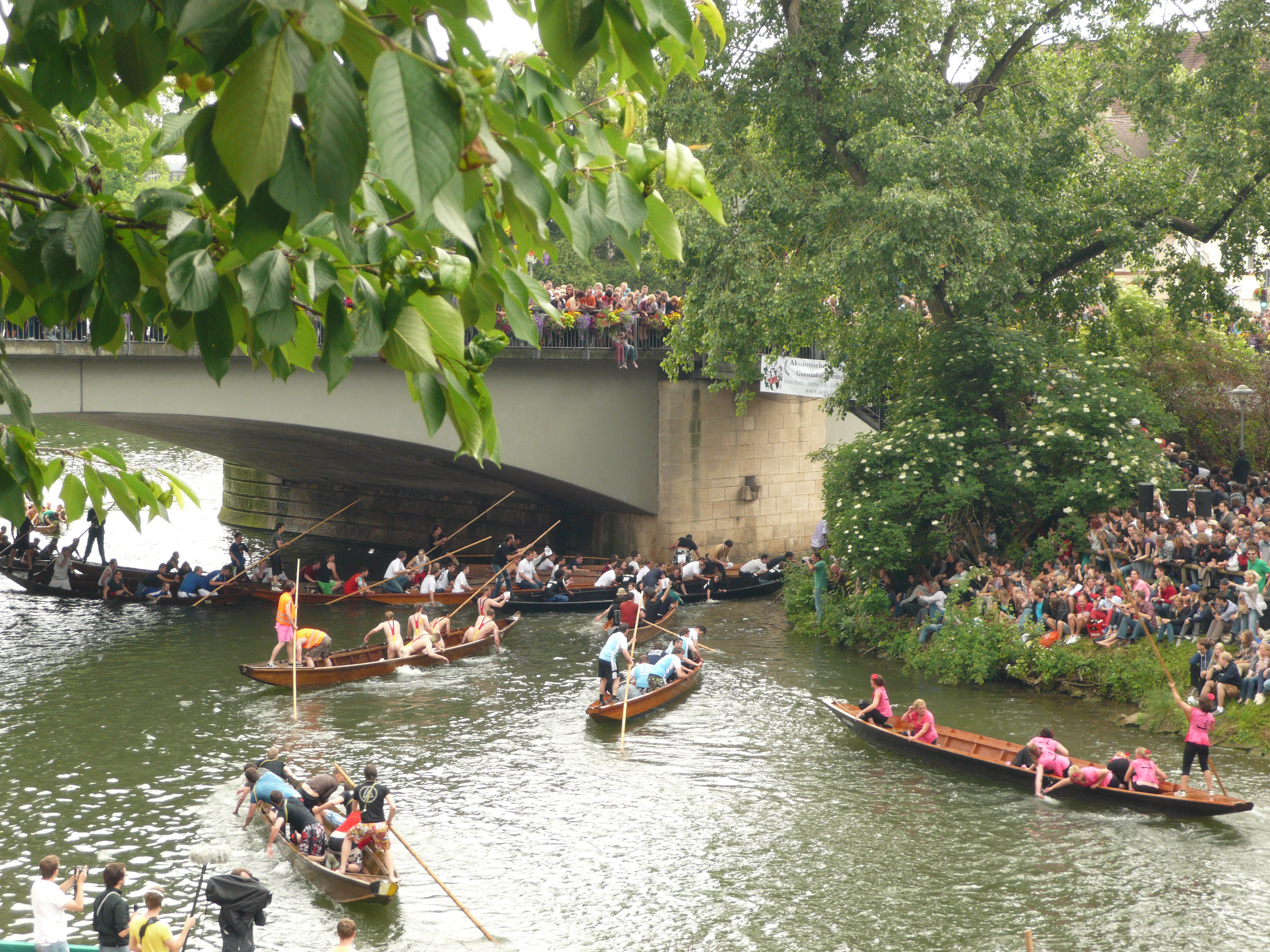 Traditional boat ralley in Tuebingen, 2012